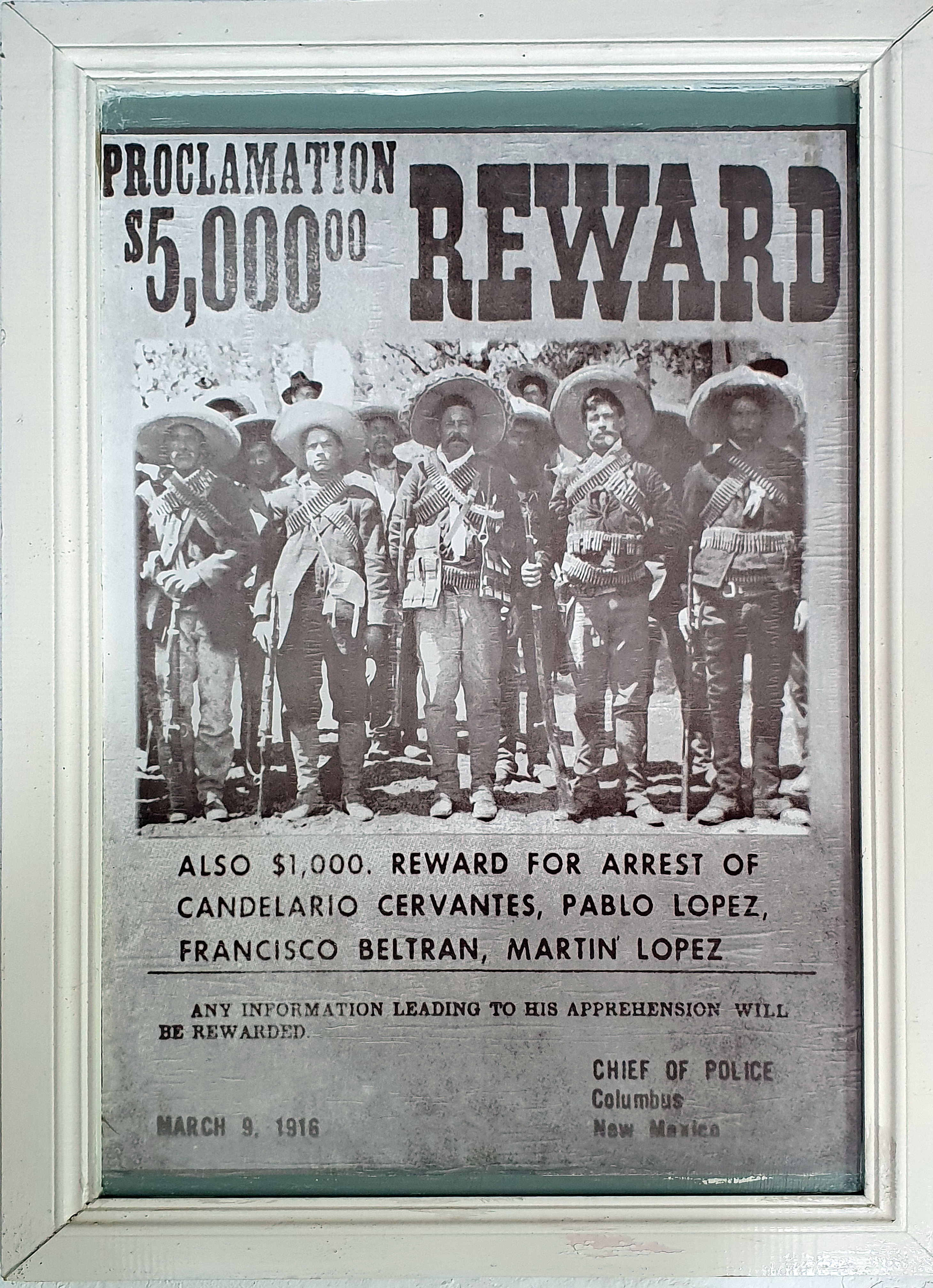 Wanted poster from the Chief of Police of Columbus, New Mexico, dated March 9, 1916, for the apprehension of the Mexican revolutionary officers that led the Mexican troops in the Battle of Columbus (March 9, 1916). Text: "Proclamation $ 5,000.00 Reward. Also $1,000. reward for arrest of Candelario Cervantes, Pablo Lopez, Francisco Beltran, Martin Lopez. Any information leading to his apprenhension will be rewarded". The poster is located at the La Muralla hacienda (La Misión hotels) near Amealco, Querétaro, Mexico.